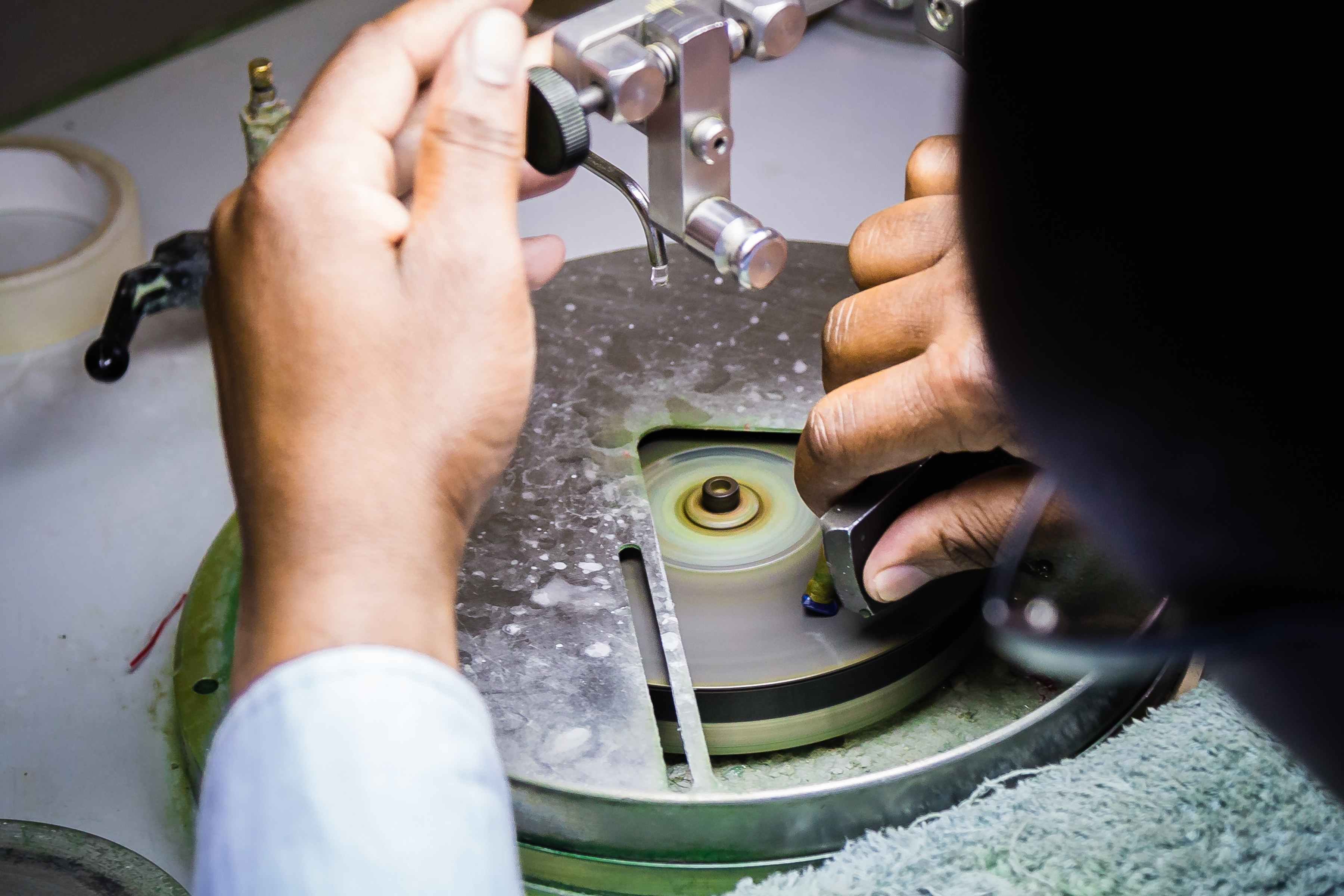 This is an image of "African people at work" from Tanzania